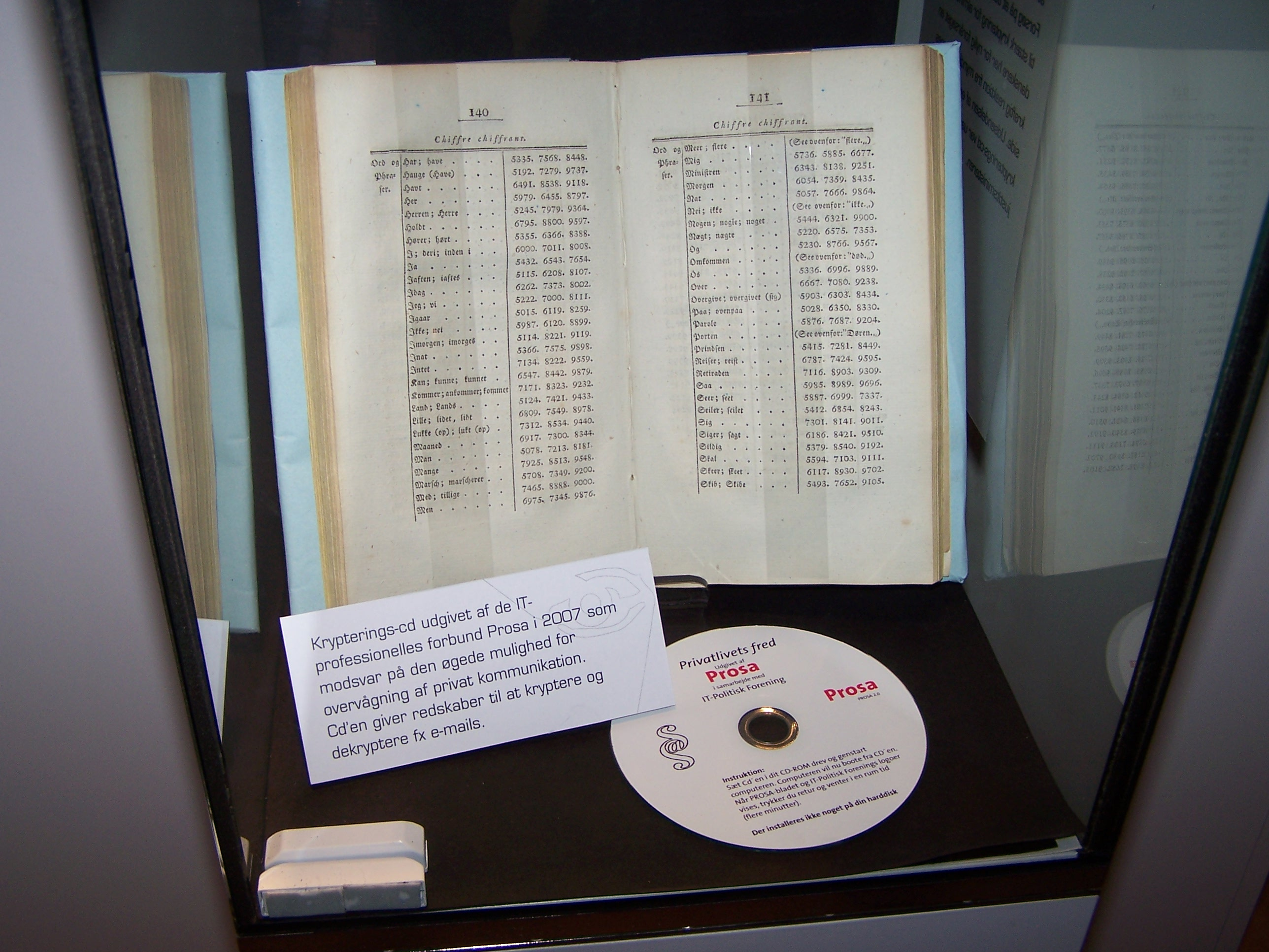 The polippix CD on museum